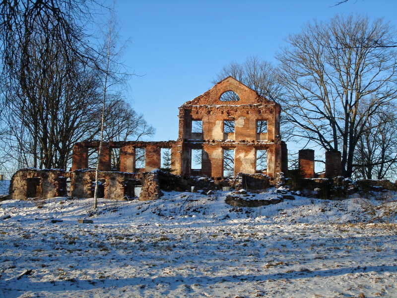 Ruins of Alt-Mocken manor